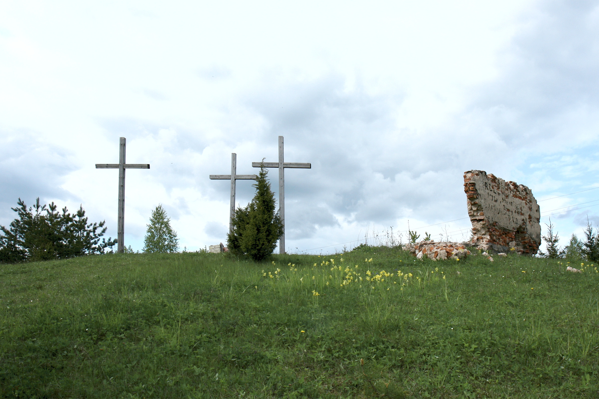 Crosses on the Kalvaryjski hill, Miadzieł, Belarus.